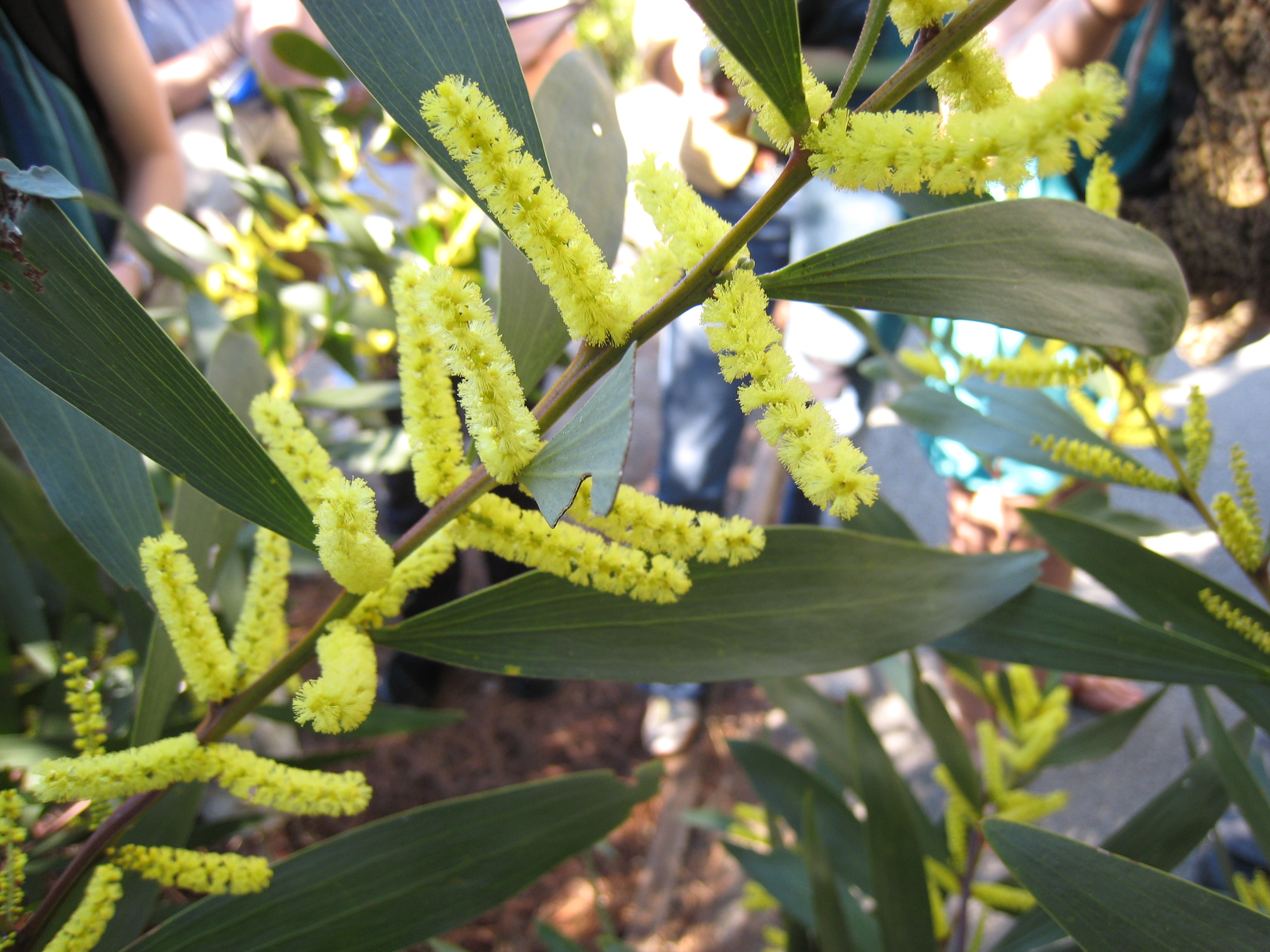 Acacia longifolia (Sydney Golden Wattle)